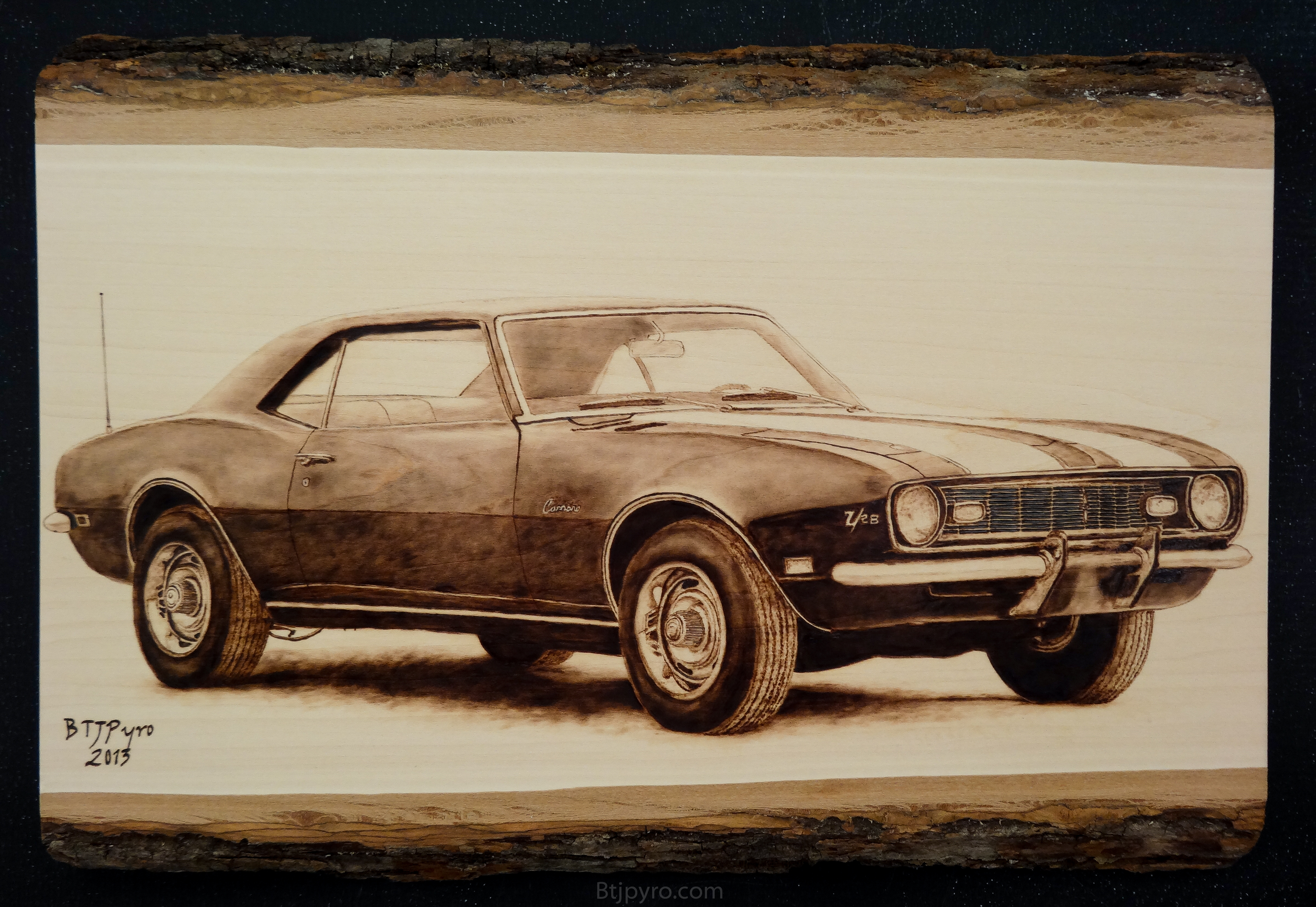 1968 Chevrolet Camaro Z/28 - Handmade pyrography by BTJPyro